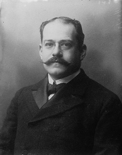 Jules Bache, a German-born American banker, art collector and philanthropist